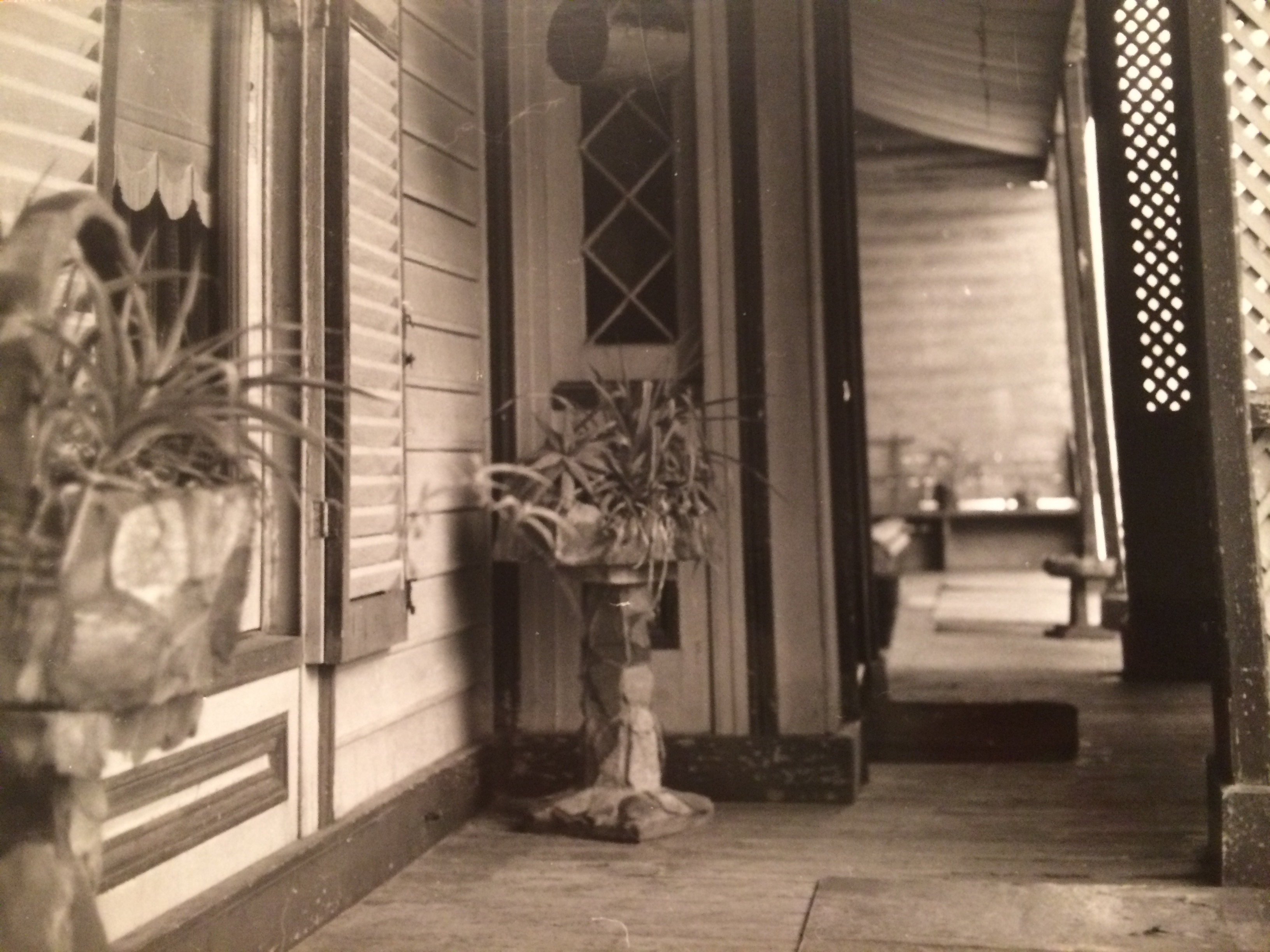 Verandah of The Grange, Soldiers Hill, Ballarat, Victoria, Australia